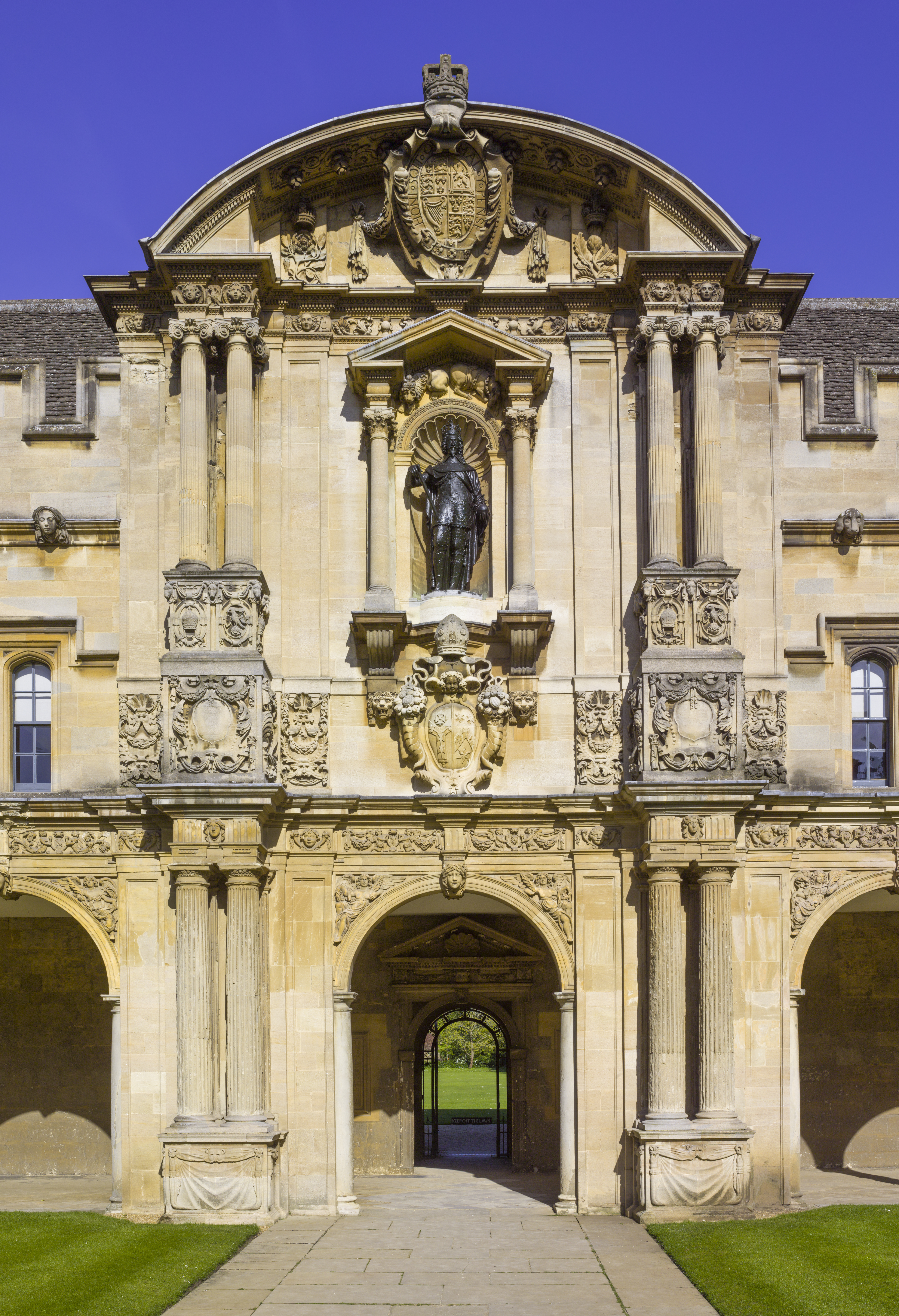 St John's College (Oxford University) founded in 1555. East side of Canterbury Quad.